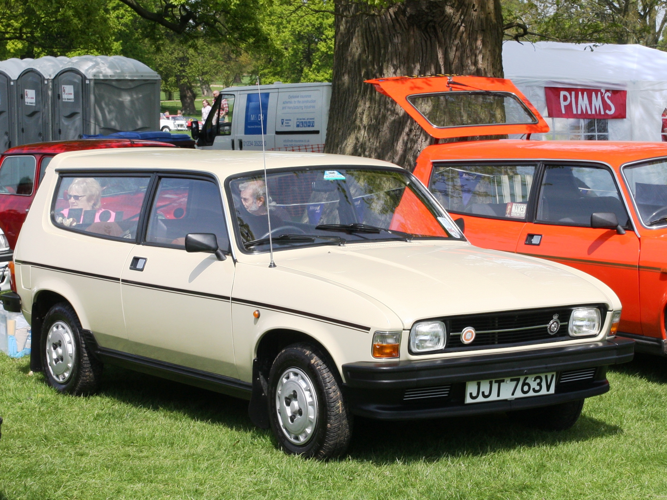 Austin Allegro 1300 estate (1980)